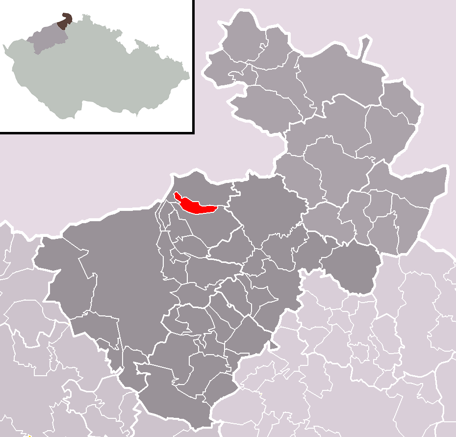 Location of Janov municipality within Děčín District and administrative area of Děčín as a Municipality with Extended Competence.